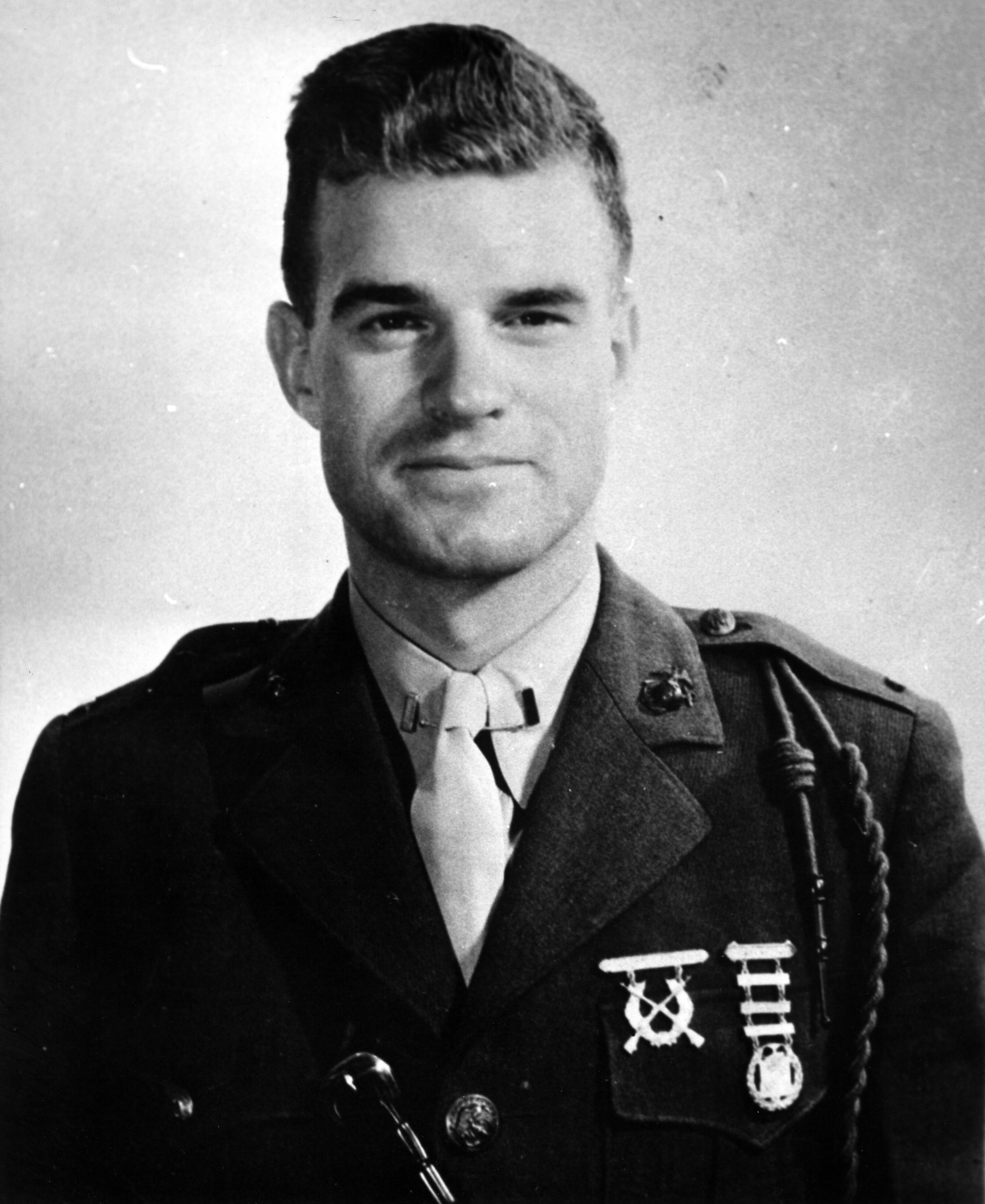 Ronald Reginald Van Stockum (Born July 8, 1916) is a decorated officer of the United States Marine Corps with the rank of Brigadier General. A veteran of Bougainville and Guam campaigns, Van Stockum is most noted for his service as Director, Marine Corps Reserve and later as Commanding General, Fleet Marine Force, Pacific (Forward) on Okinawa during the Vietnam War. Here shown as 2nd Lieutenant in June 1939.